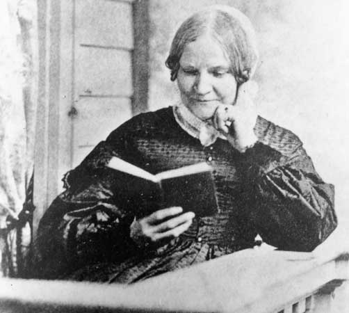 Lydia Maria Child (February 11, 1802 – July 7, 1880) was an American abolitionist, women's rights activist, opponent of American expansionism, Indian rights activist, novelist, and journalist.